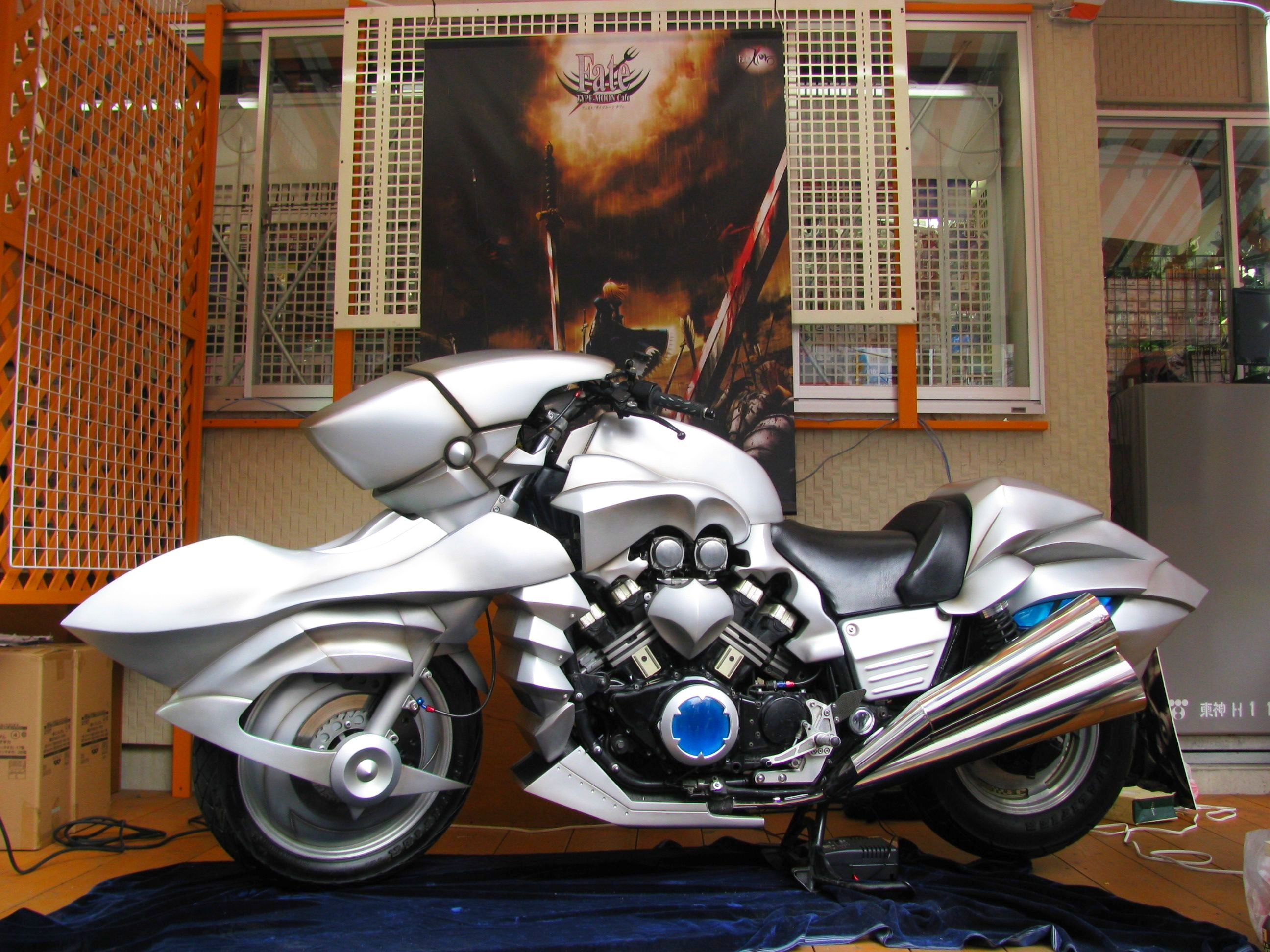 This is a replica of Saber's Motorbike. Saber is riding this motorbike in the Fate/zero. Original of this remodeled motorbike is V-Max.